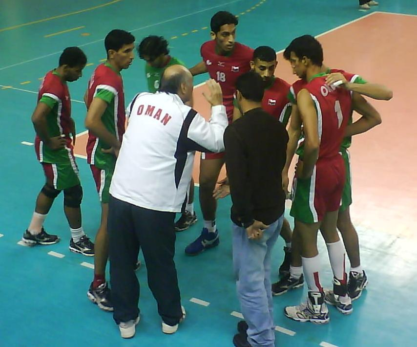 Oman national volleyball team - Radom, Poland (match: Czarni Radom vs Oman)